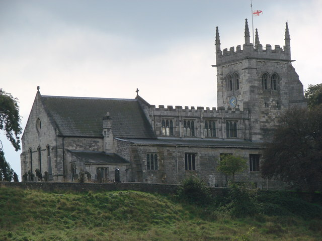 All Saints Church from Coldhill Lane, Sherburn in Elmet